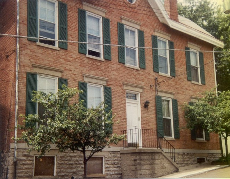 Digital photo taken by Branlon in 2004.